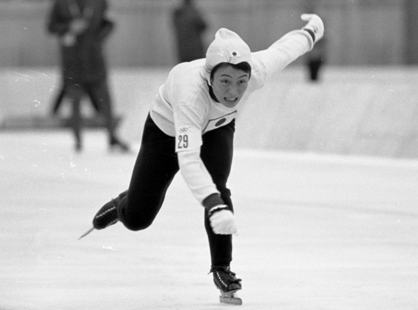 Jitsuko Saito at the 1968 Winter Olympics in Grenoble.